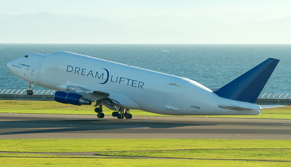 Boeing 747-400(LCF) Dreamlifter Boeing Company (N780BA) at Chūbu Centrair International Airport Ise Bay, Tokoname City, Japan